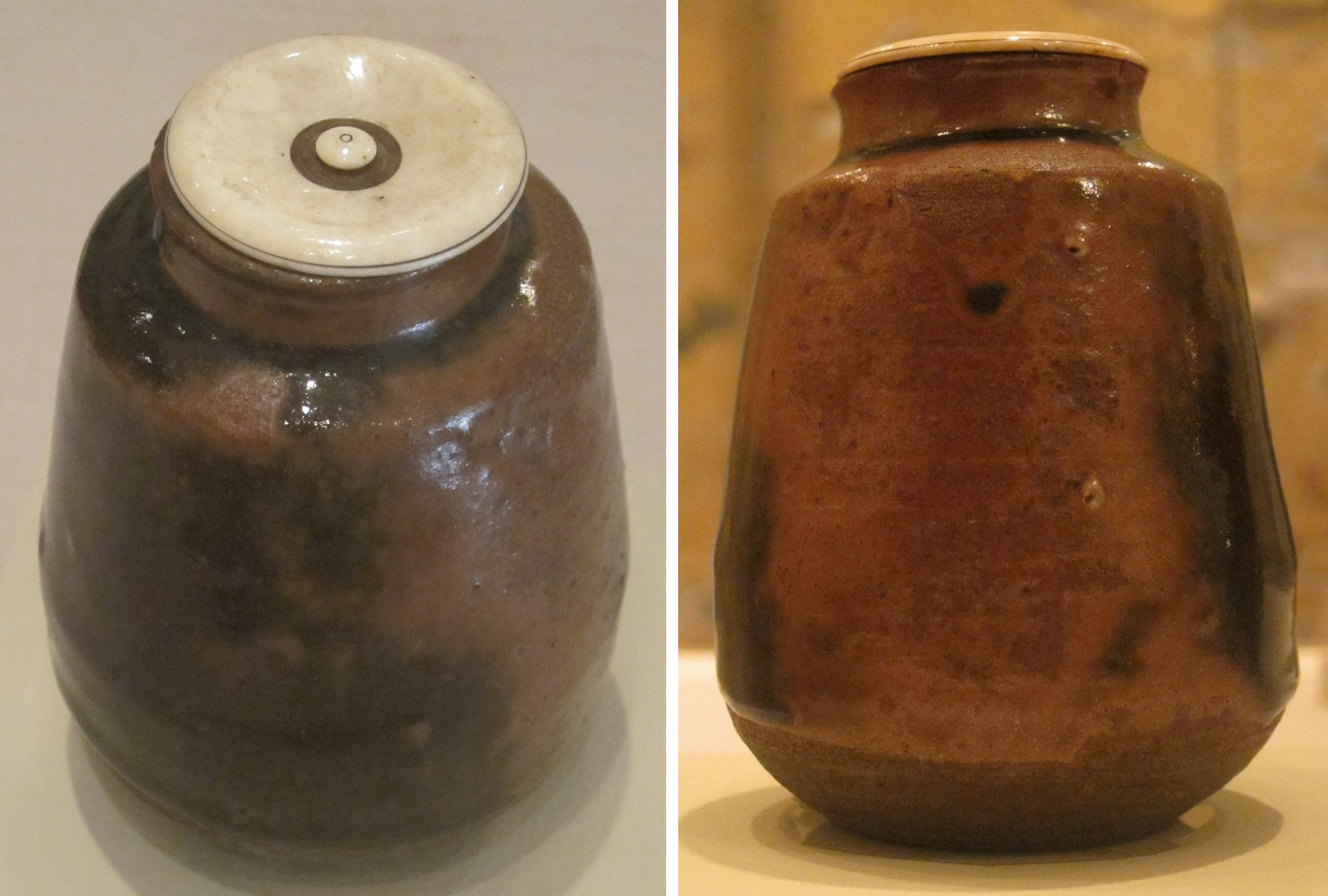 Tea caddy from Japan, Edo period, 18th century, seto glazed stoneware, Honolulu Academy of Arts